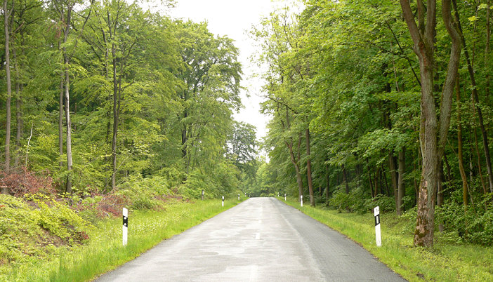 Road in the Lappwald forest near Bad Helmstedt, Germany